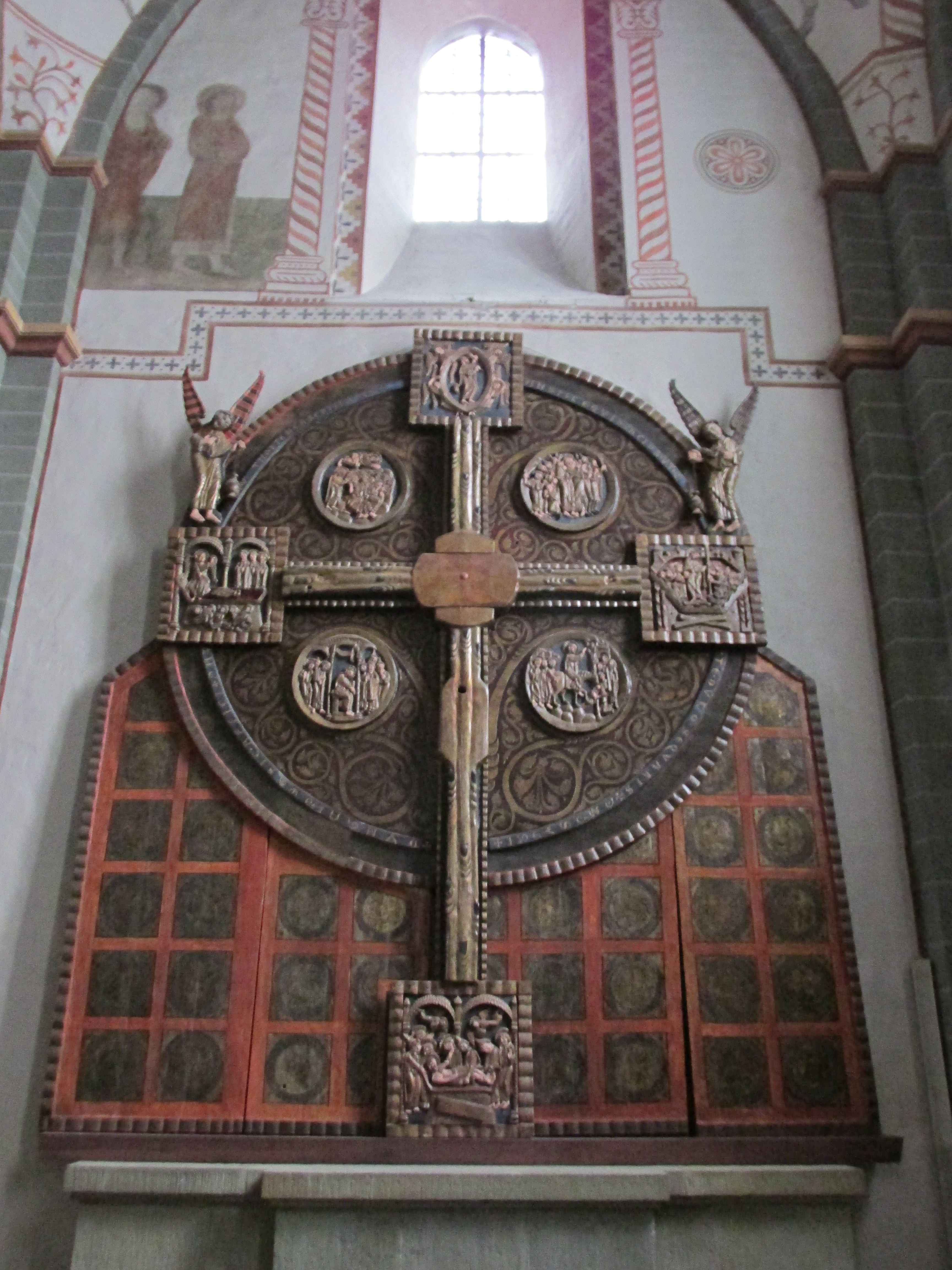 Triumph crucifix at St. Maria zur Höhe, Soest, Germany check usage